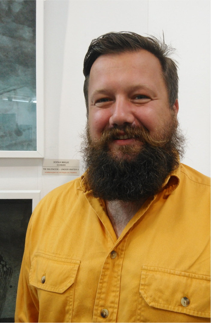 Zoran Mise after being awarded the "Todor Atanassov" prize at the "2018 Friends of the Sea" art exhibition and contest